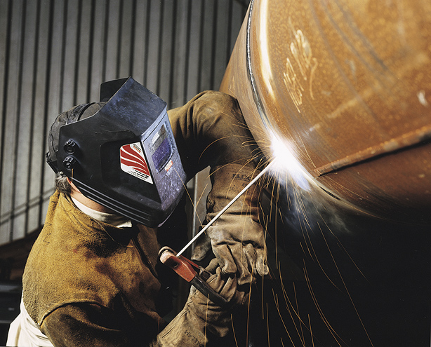 Stick Welding Pipe Welding Application Photo